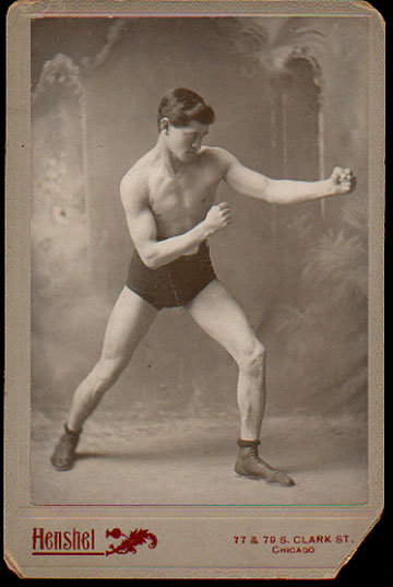 Postcard depicting the boxer Billy "Turkey Point" Smith. Smith put a 'Thank you' message on the obverse side and sent it to Thomas Eakins